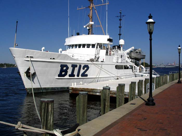 'The Mexican Navy hydrographic survey ship ARM Rio Tuxpan (BI-12) moored pierside on the Elizabeth River at Town Point Park in Norfolk, Virginia on the day she was transferred from the National Oceanic and Atmospheric Administration to the Mexican Navy and commissioned into Mexican Navy service as Mexico s first dedicated hydrographic survey ship. She had served in the United States Coast and Geodetic Survey fleet from 1963 to 1970 as USC&GS Whiting (CSS 29) and in the NOAA fleet from 1970 to 2003 as NOAAS Whiting (S 329).